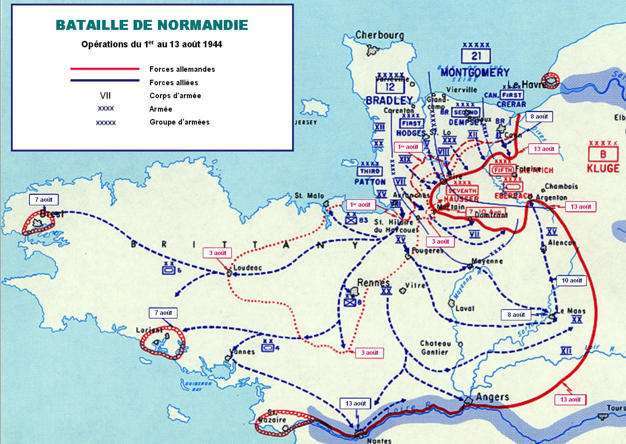 Map of the Normandy Battle August 1-13 1944